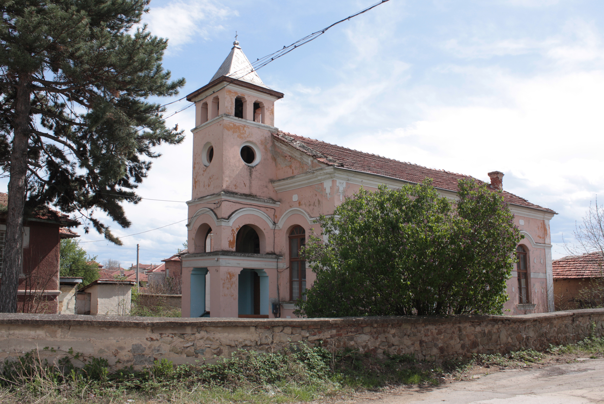 Protestant church in Apriltsi, Bulgaria